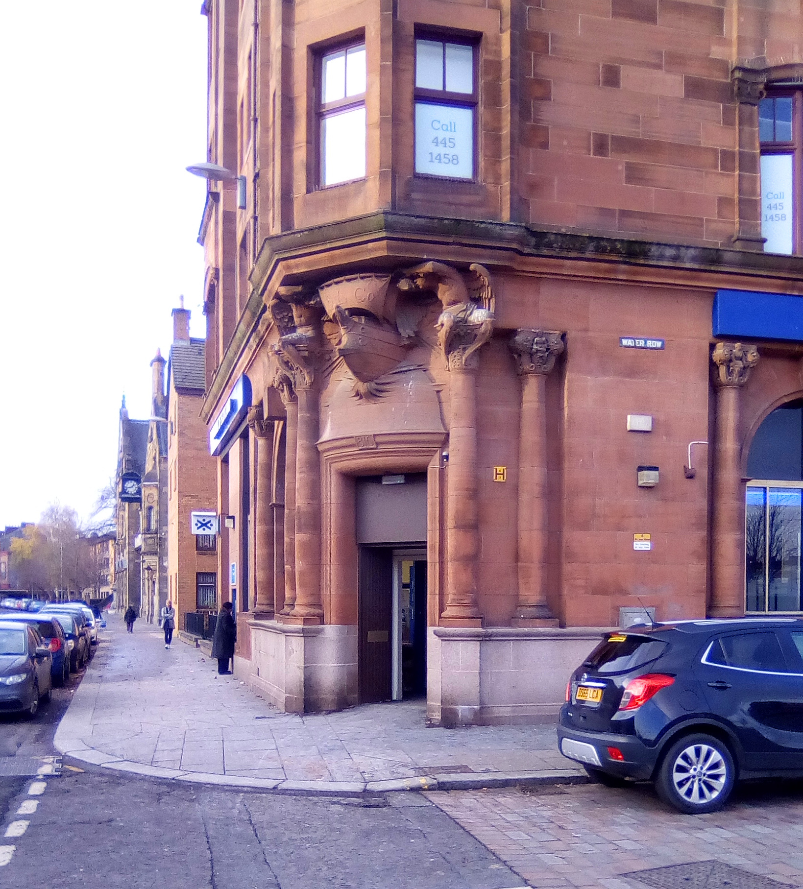 Doorway of former British Linen Bank Govan, built in 1899. Sculpture by Derwent Wood. Category A listed building LB33351